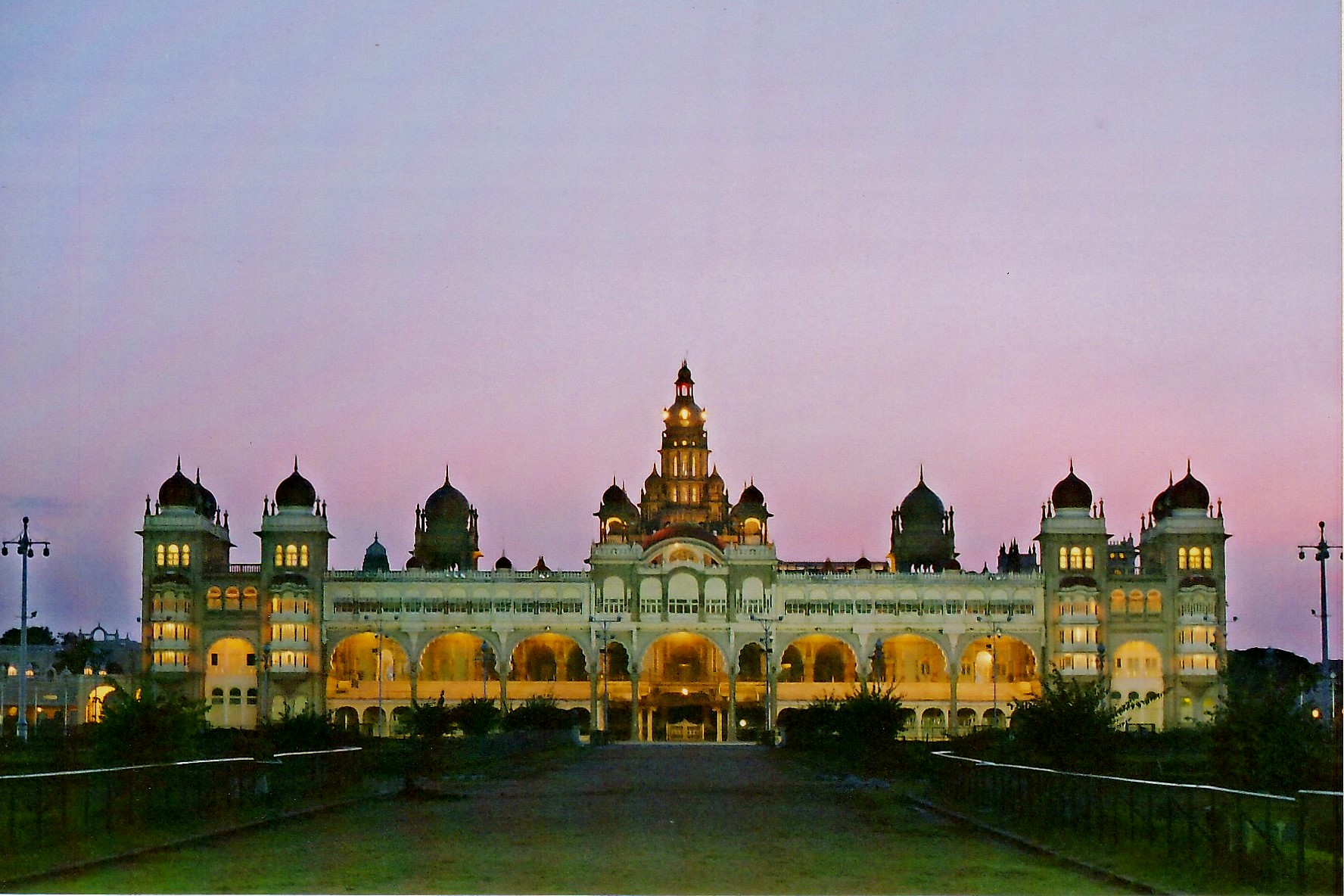 This photograph of the Mysore Palace was taken by self (Dinesh Kannambadi) at Mysore, Karnataka state, India in 2002